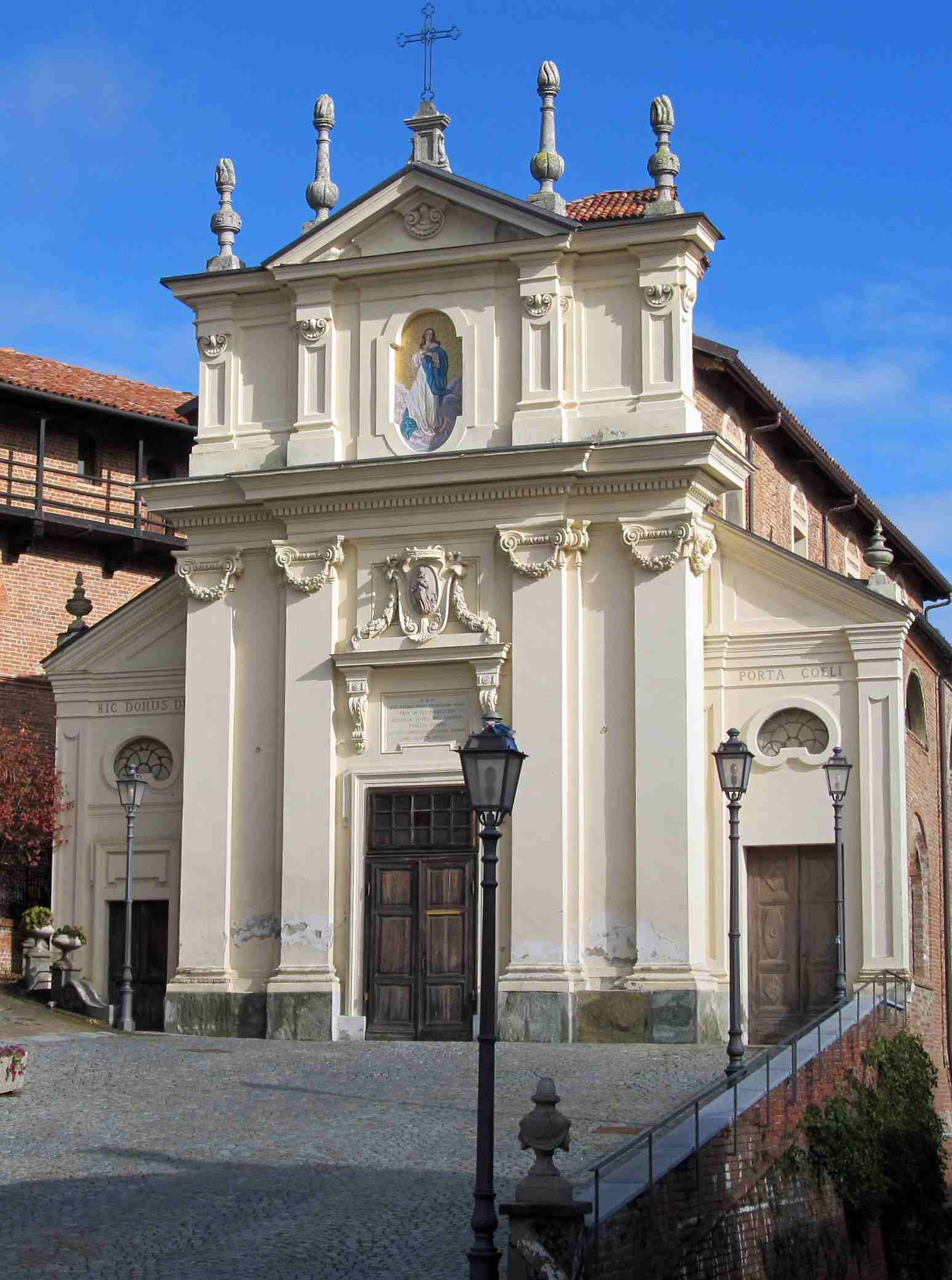 Cinzano (TO): parish church